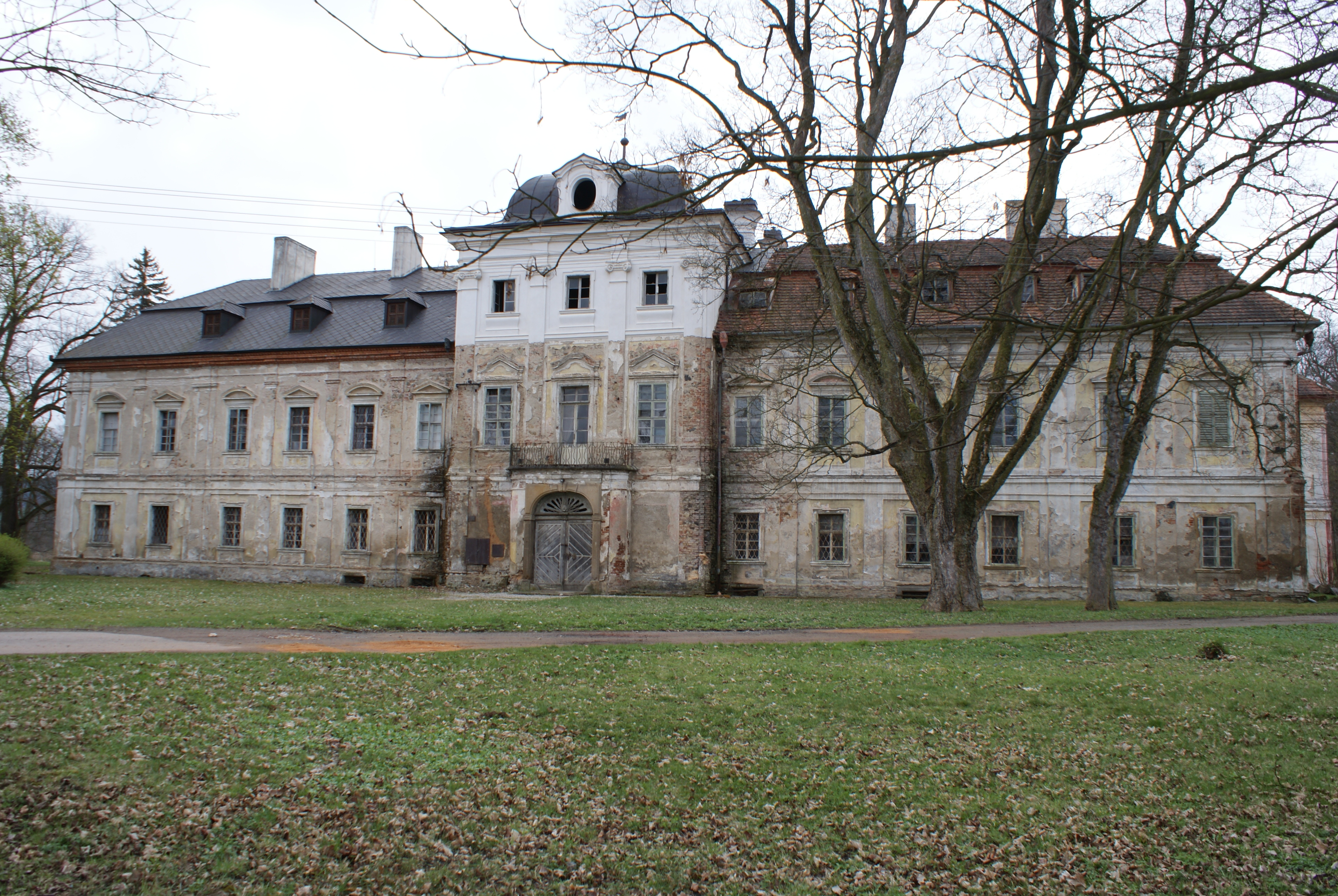 Dolní Lukavice, Plzeň-jih district, Czech Republic, castle.